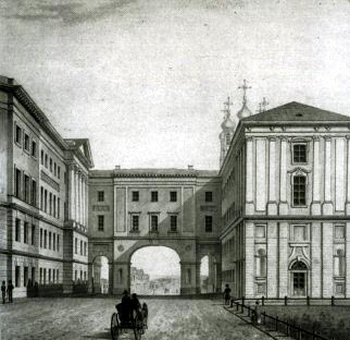 Tsarskoe Selo Lyceum as it appears on a 19th-century drawing.